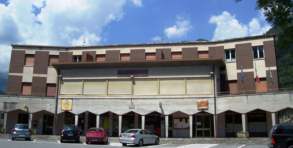 Town hall. Angolo Terme, Val Camonica